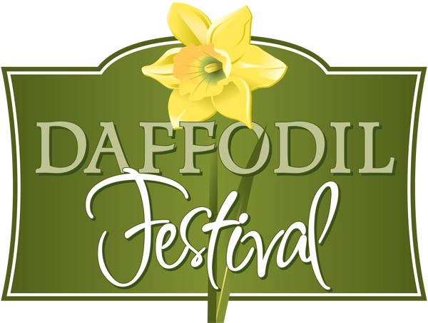 Daffodil Festival Main Logo